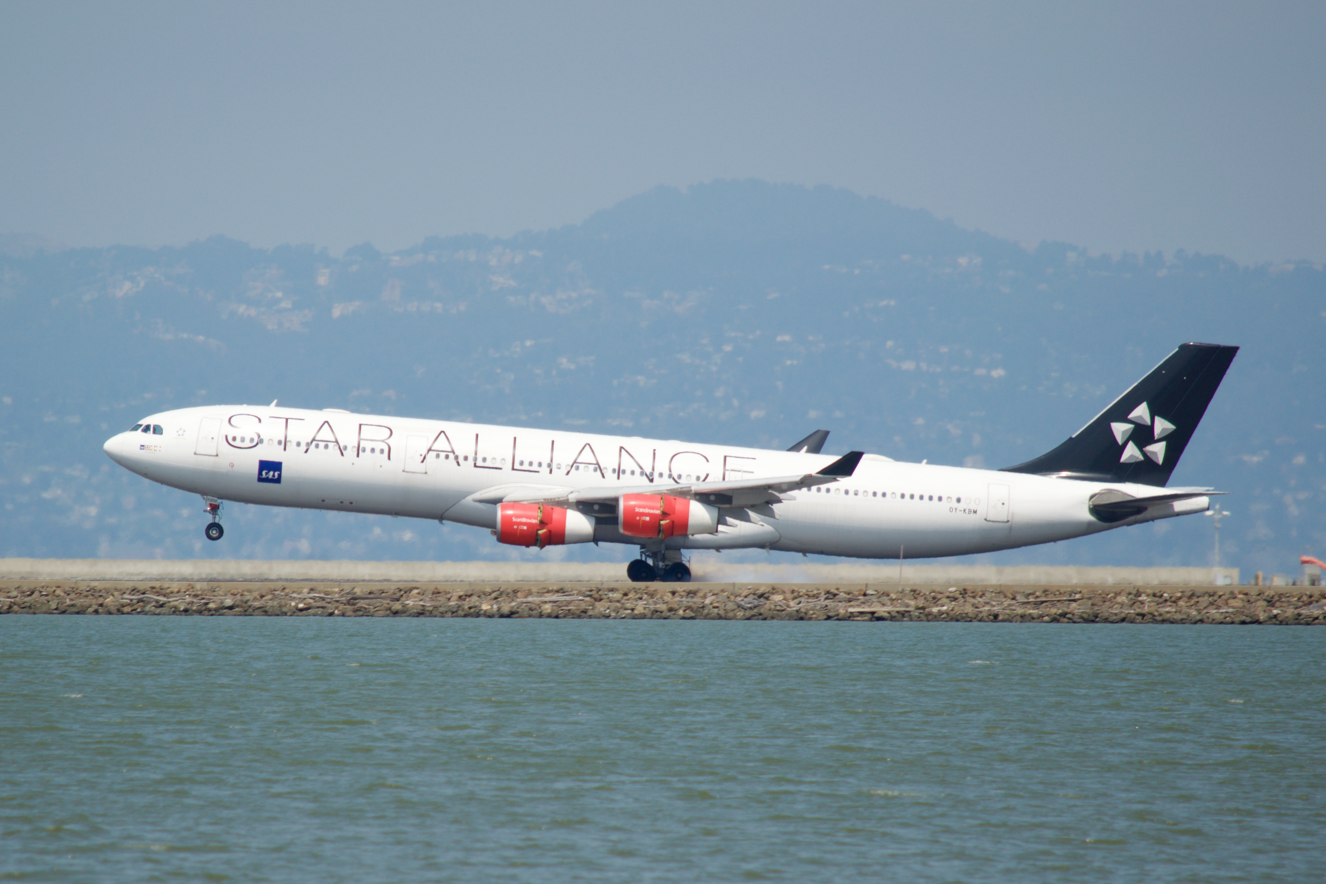 Airbus A340 of SAS Scandinavian Airlines at San Francisco International Airport